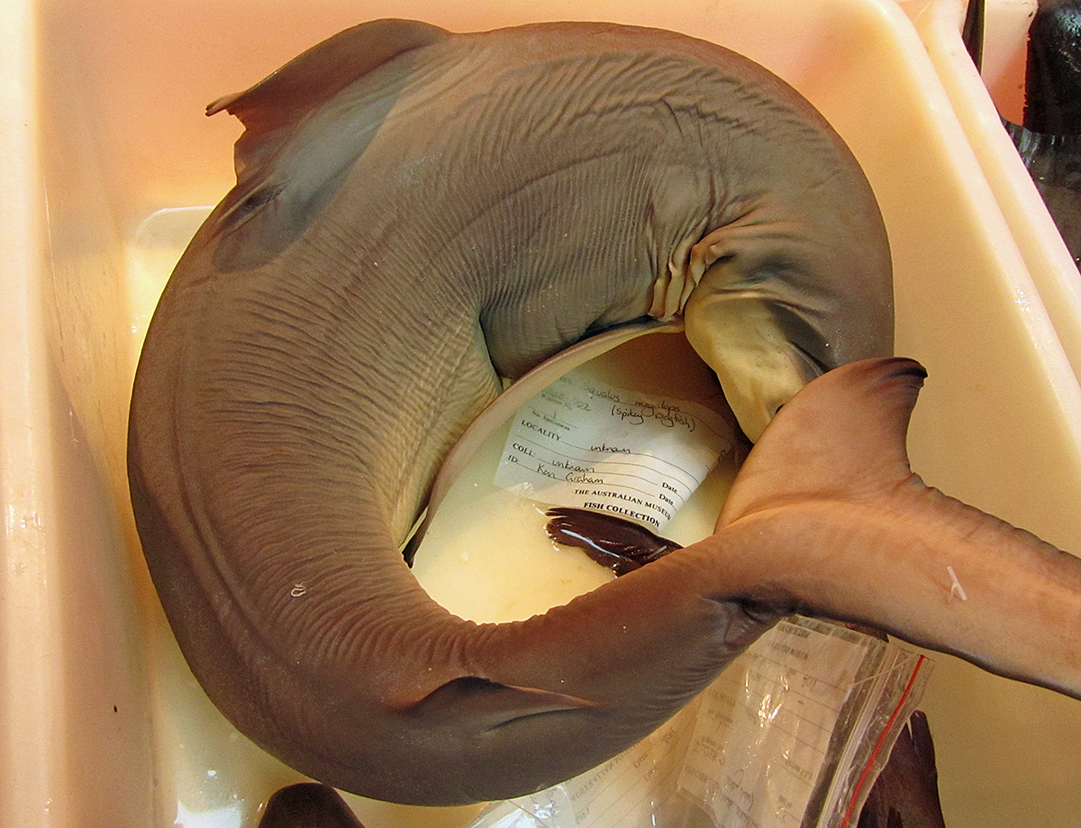 Shortnose spurdog (Squalus megalops) at the Australian Museum